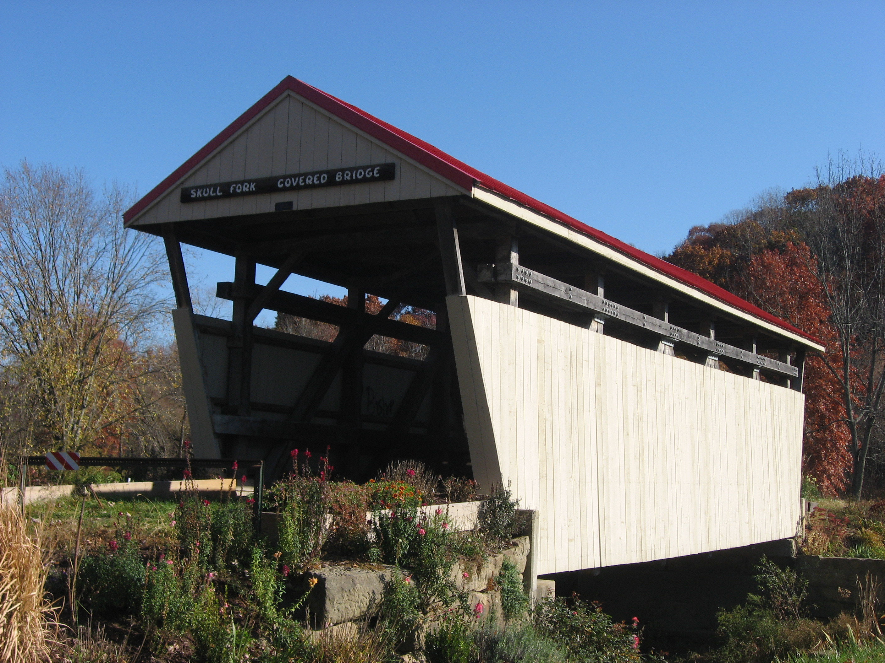 Western portal and southern side of the Skull Fork Covered Bridge, a covered bridge that formerly carried Covered Bridge Road over the Skull Fork south of Freeport in Freeport Township, Harrison County, Ohio, United States. It was built circa 1860.